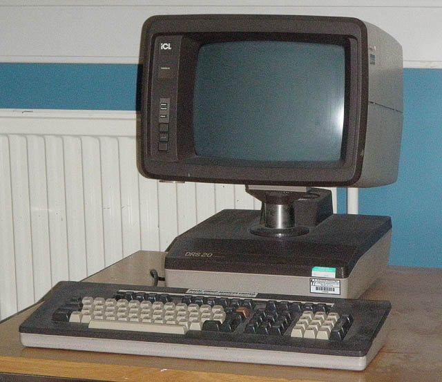 ICL DRS 20 terminal